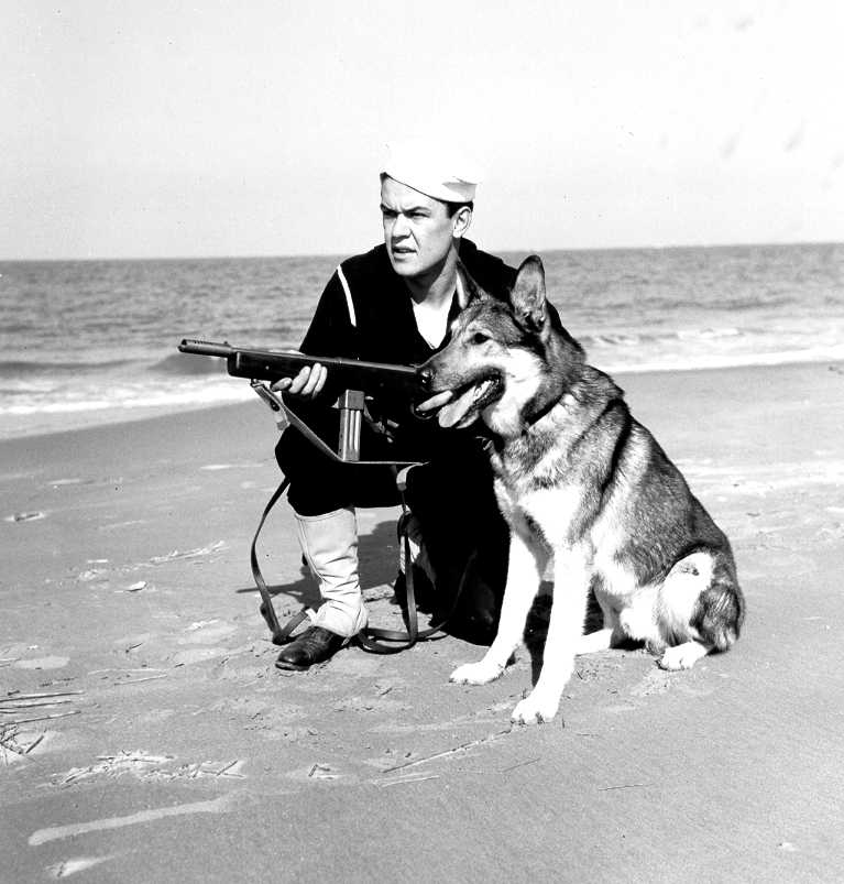 A United States Coast Guardsman with working dog and Reising SMG during WWII